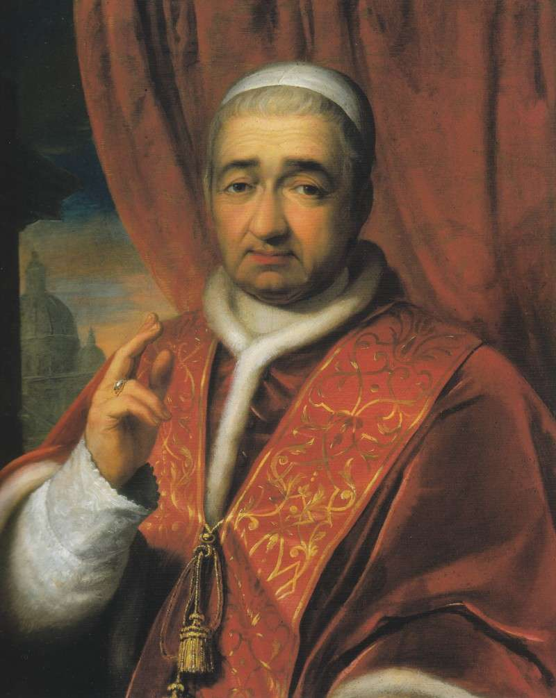 Portrait of Pope Gregorius XVI